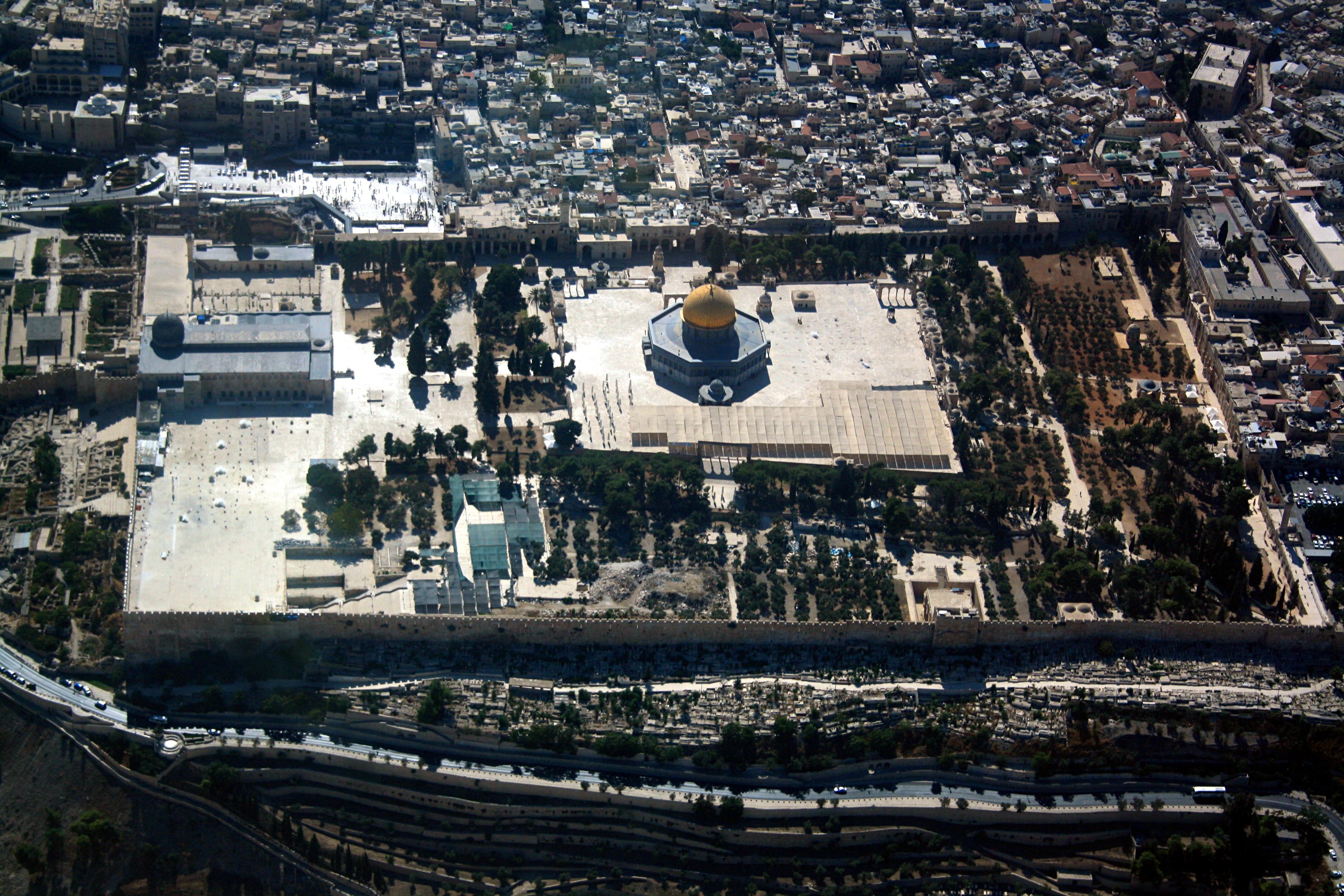 Temple Mount, Old City of Jerusalem.